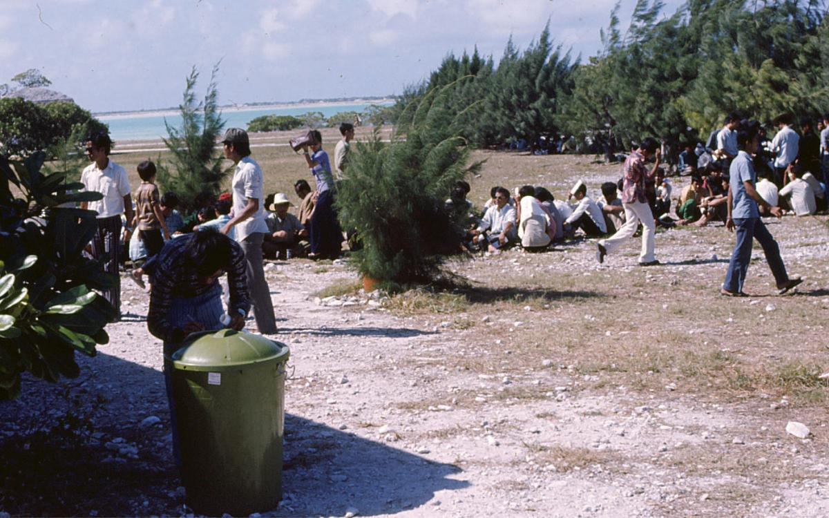 Vietnamese refugees on Wake Island await processing by U.S. Immigration and Naturalization Service personnel in May 1975.